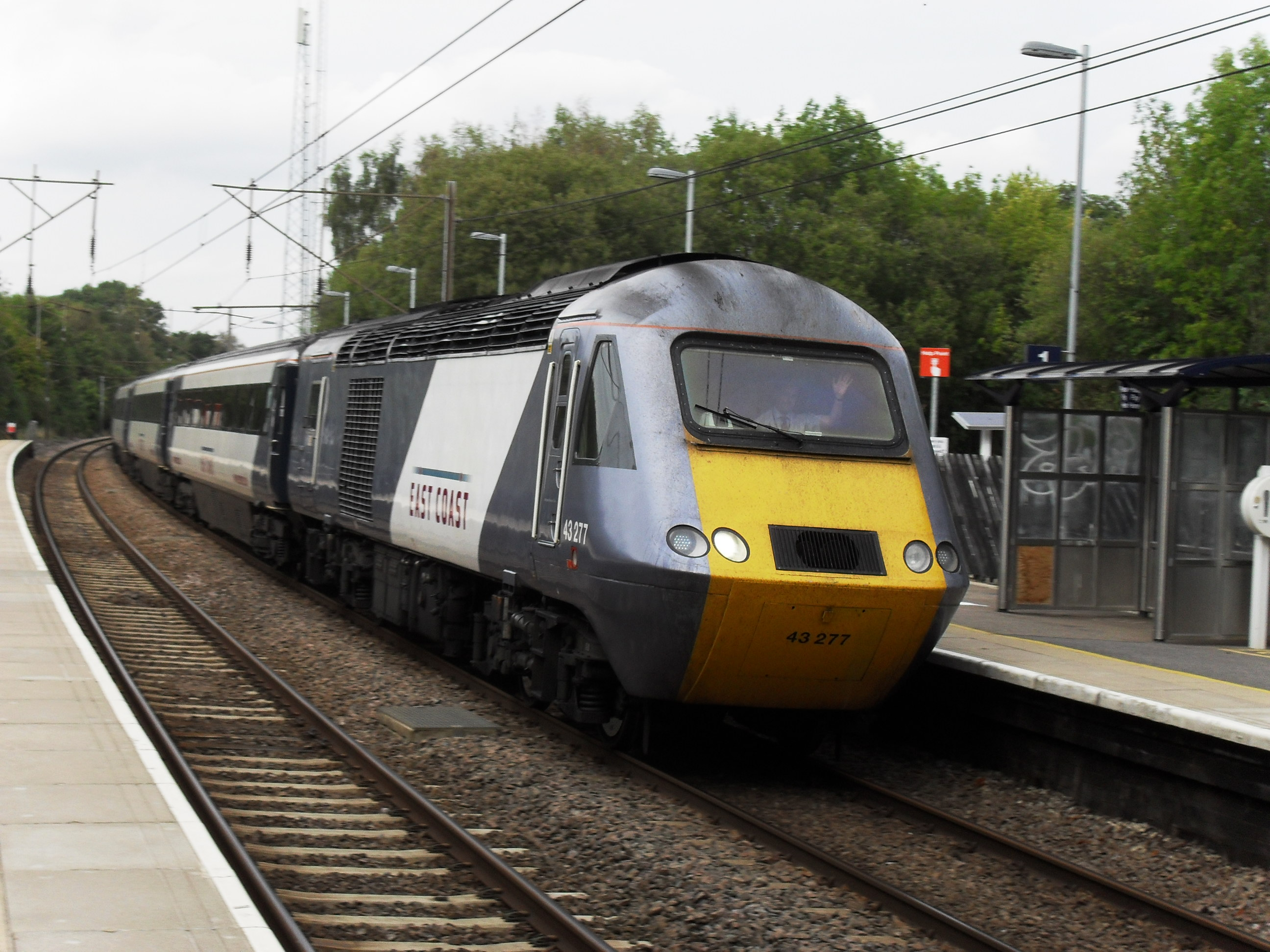 class 43 ecml diverts